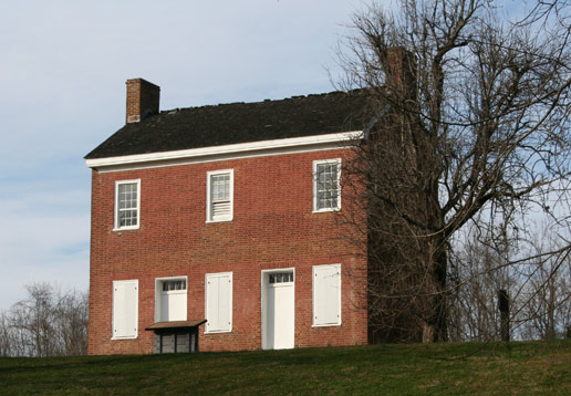 House of John Gordon, built 1818, located along the Old Natchez Trace in Tennessee. Now part of the Natchez Trace Parkway area.